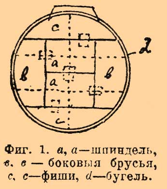 Illustration from Brockhaus and Efron Encyclopedic Dictionary (1890—1907)